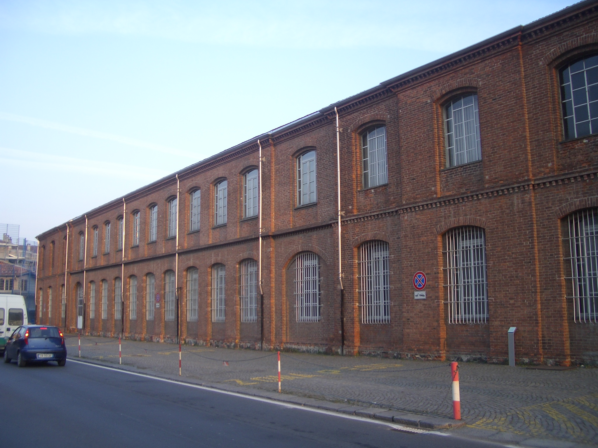 Ivrea, The first Olivetti typewriter factory (built in 1908)